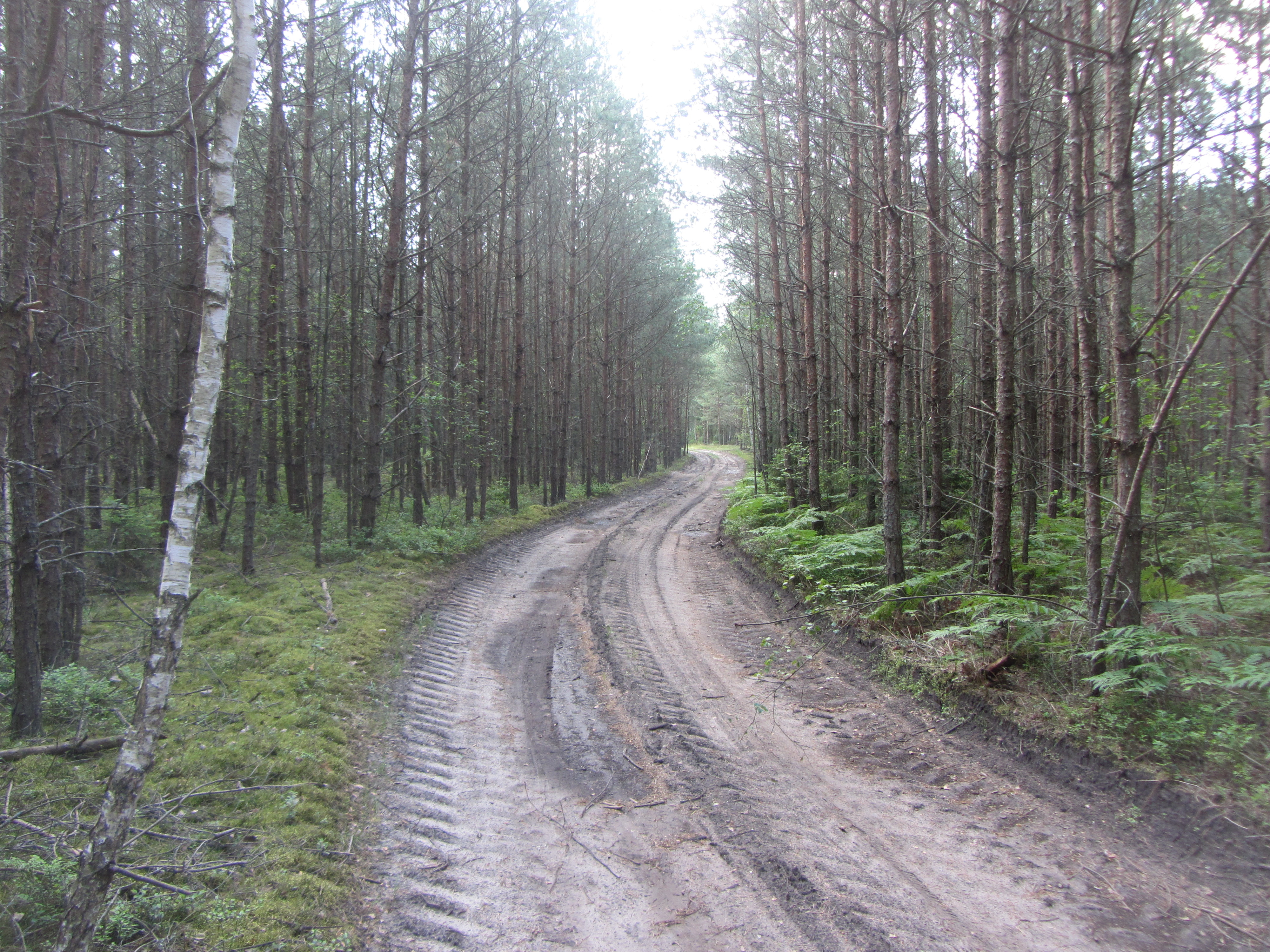 Birštono sen., Lithuania